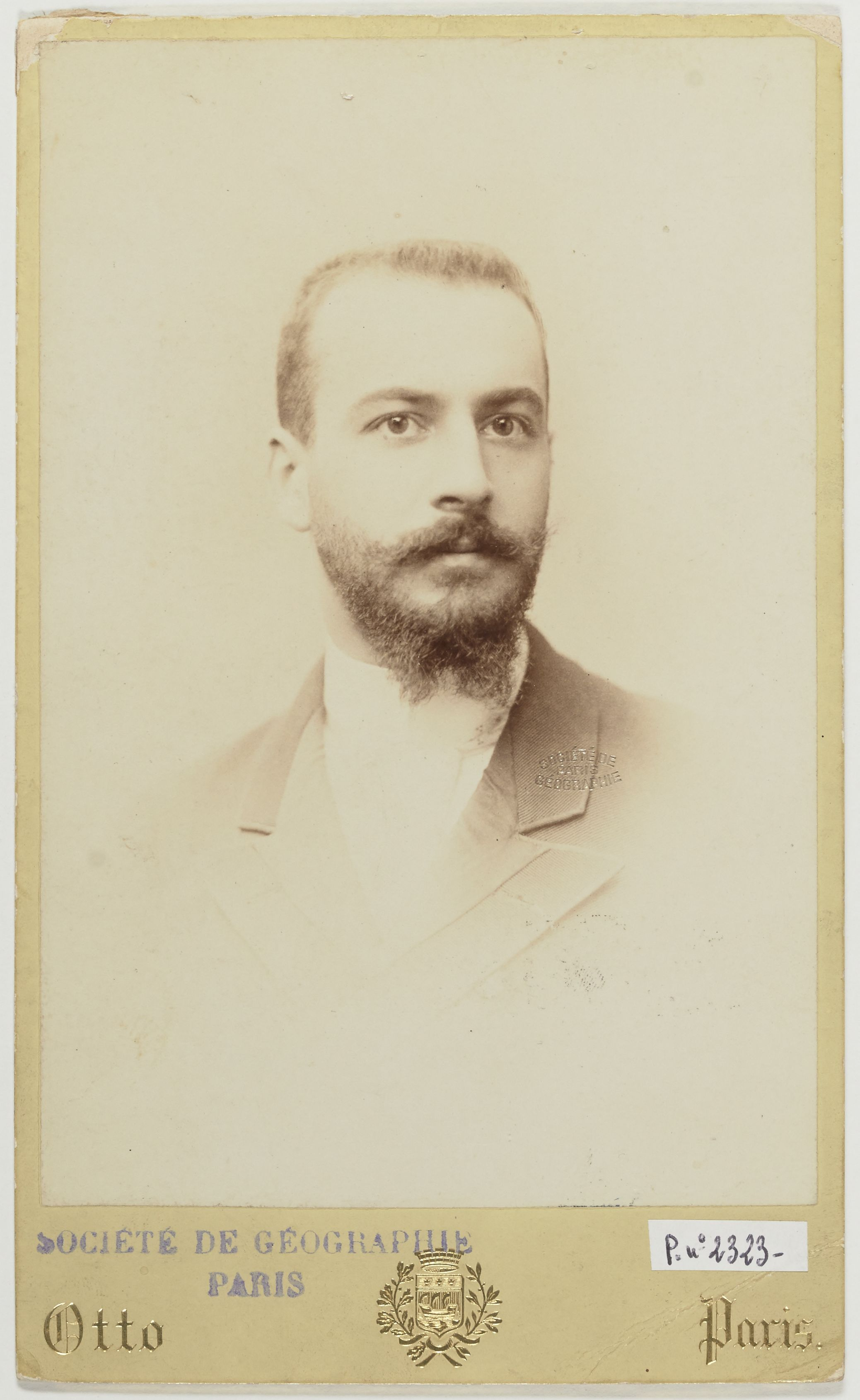 Casimir Maistre (1867-1957), photo par Otto Wegener vers 1890